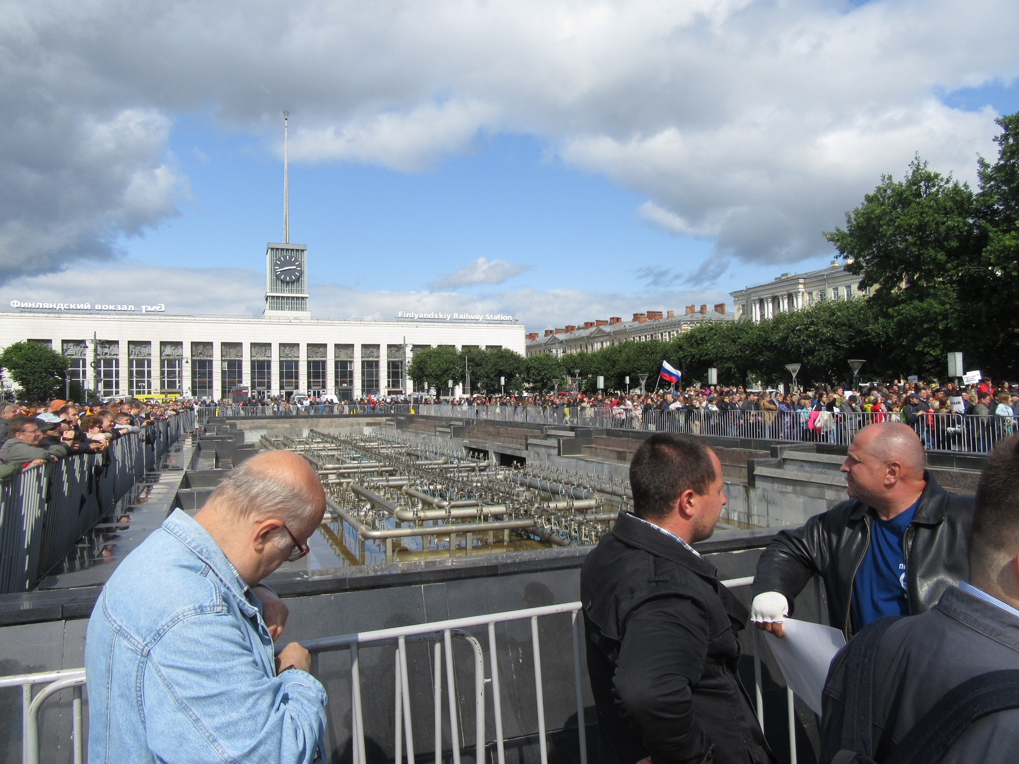 On July 27, 2019 in Moscow, Russia, 1373 were brutally and unlawfully detained during a peaceful rally for the admission of the opposition candidates to the Moscow City Duma elections. On August 3, another rally was scheduled to express solidarity with the detained in Moscow, and another one in St. Petersburg to support protesters in Moscow. The St. Petersburg rally was carried out in Lenin Square, St. Petersburg, from 2 to 3:30 p. m.